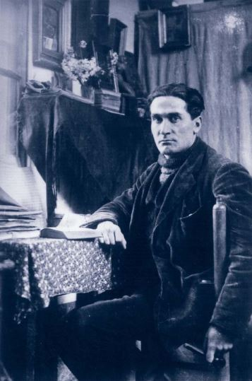 Portrait of the Spanish musician José Soler Casabón in Paris.